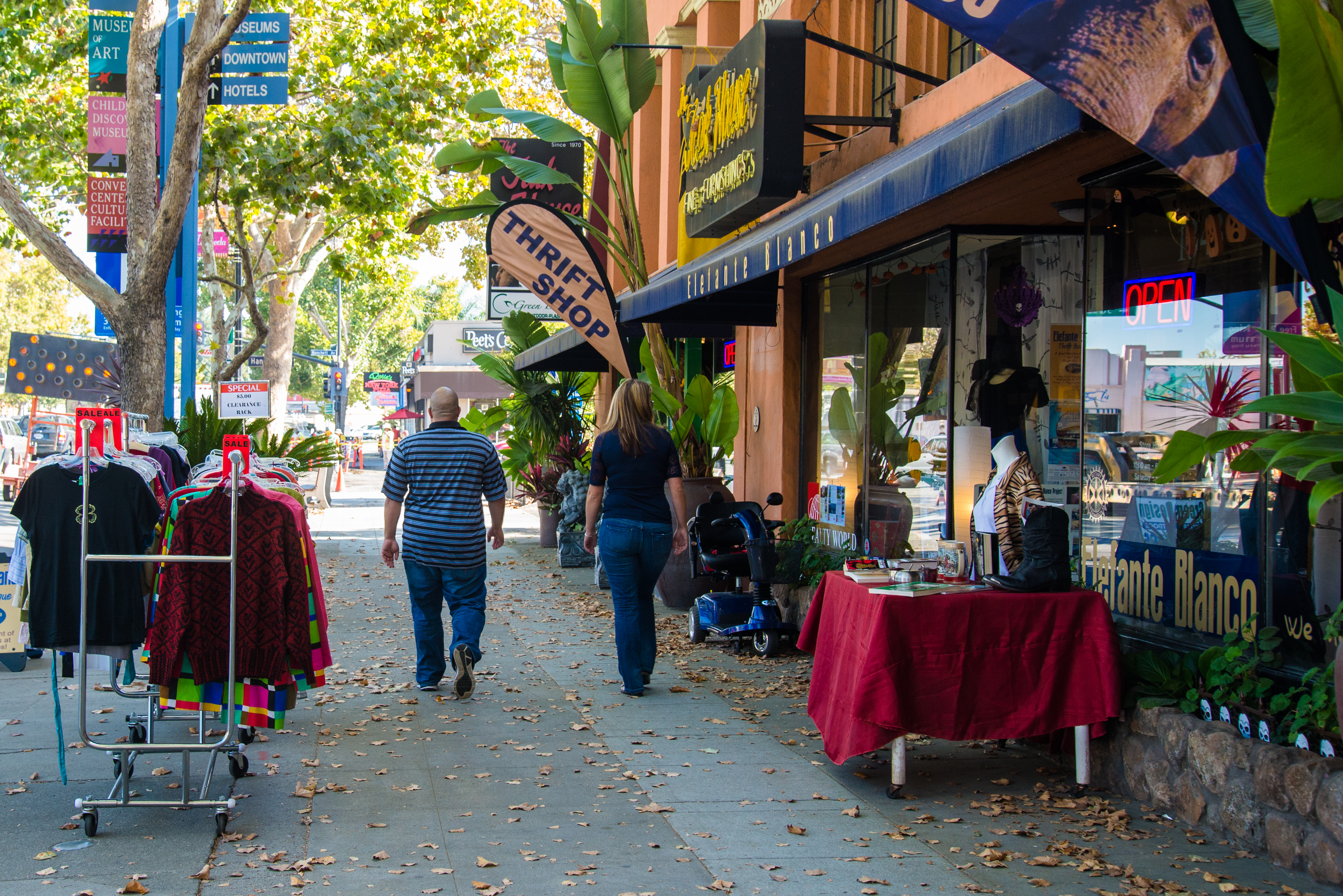 The alameda in San Jose, California